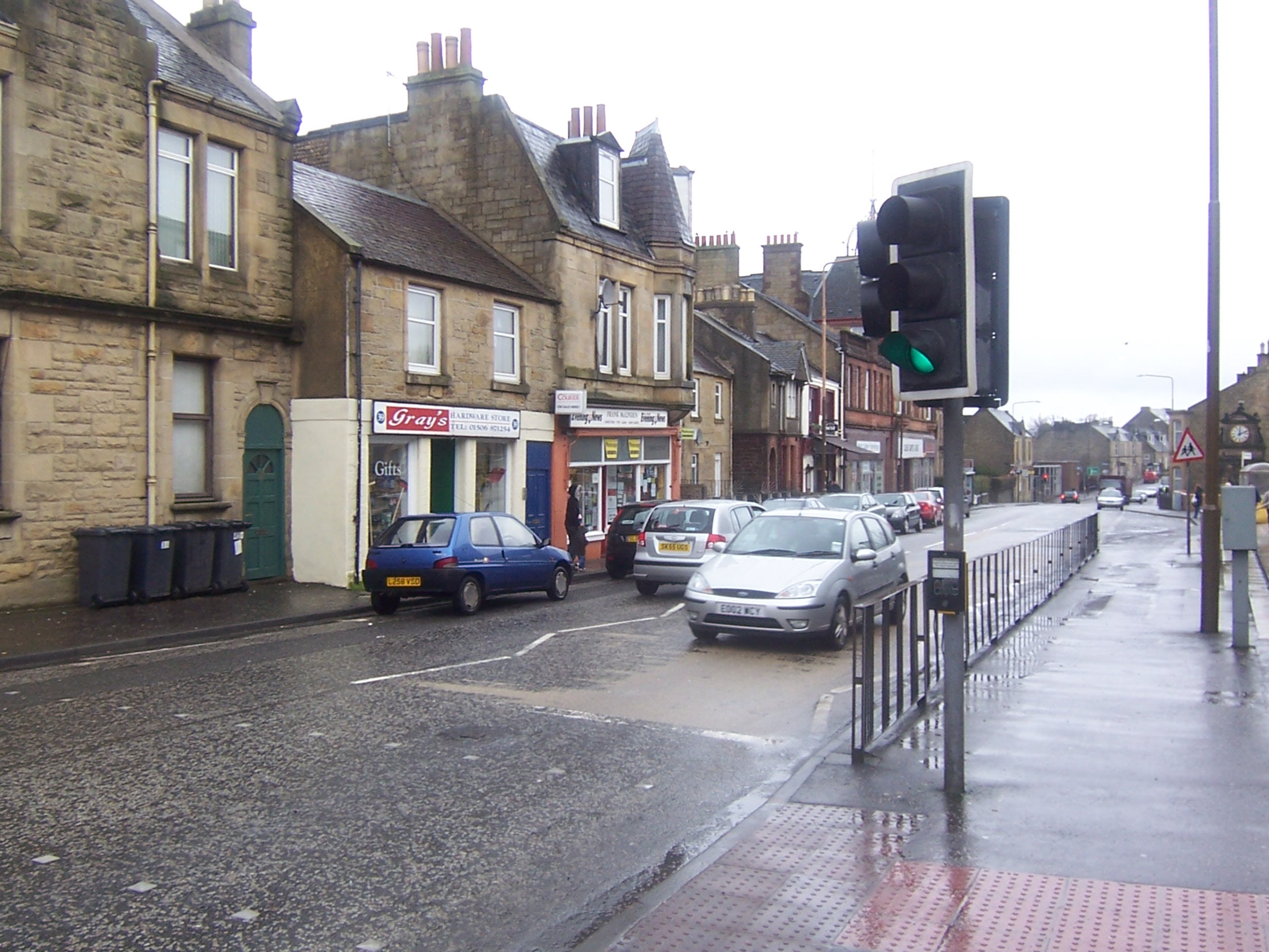 West Calder Main Street looking towards the East End.